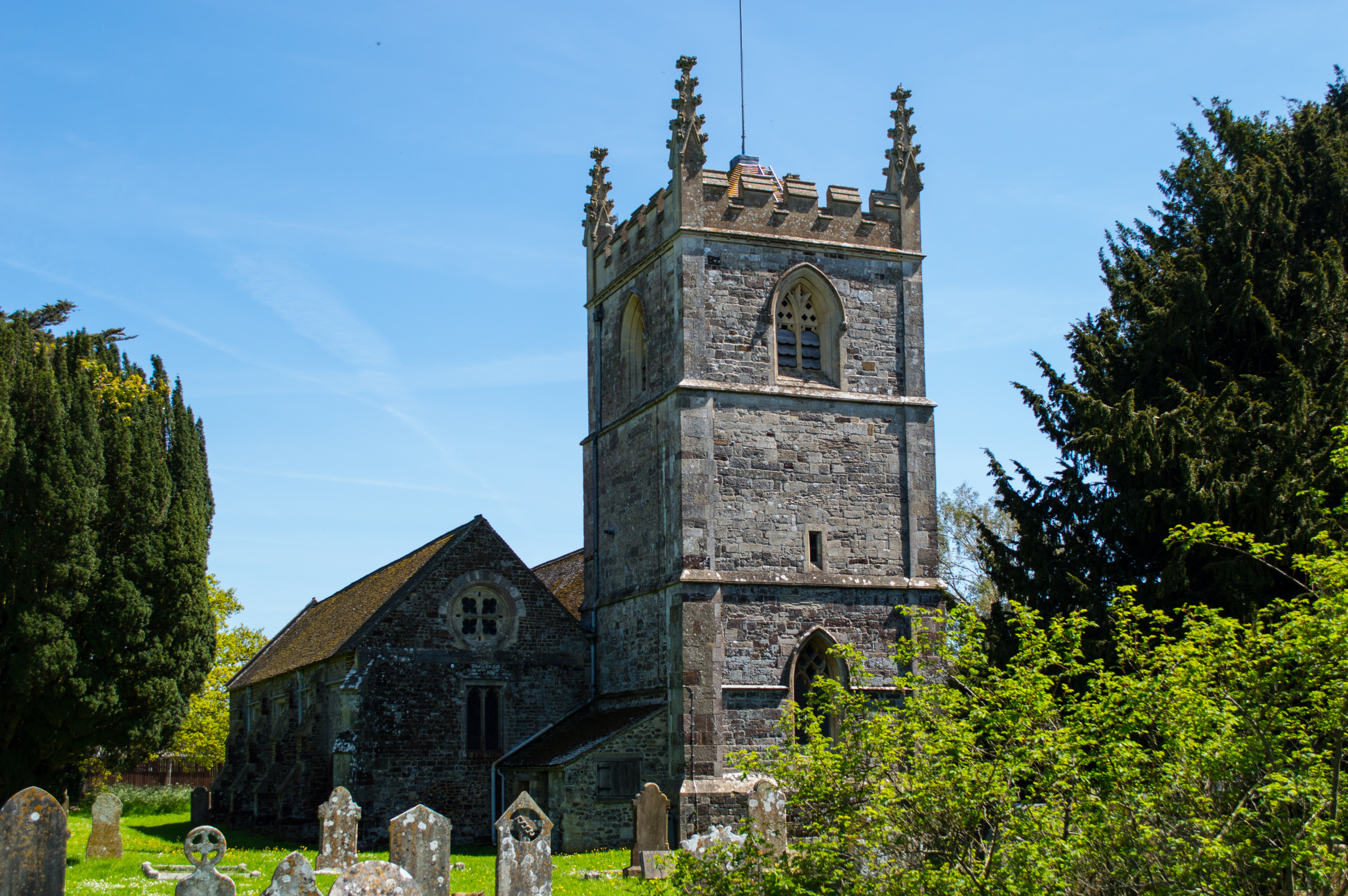 The large parish church of St Mary dominates the large village of Sturminster Marshall. The large tower, which is actually 19th Century, wants you to think it is 14th Century. It contains a superb heavy peal of 6 bells with a tenor of 18cwt.